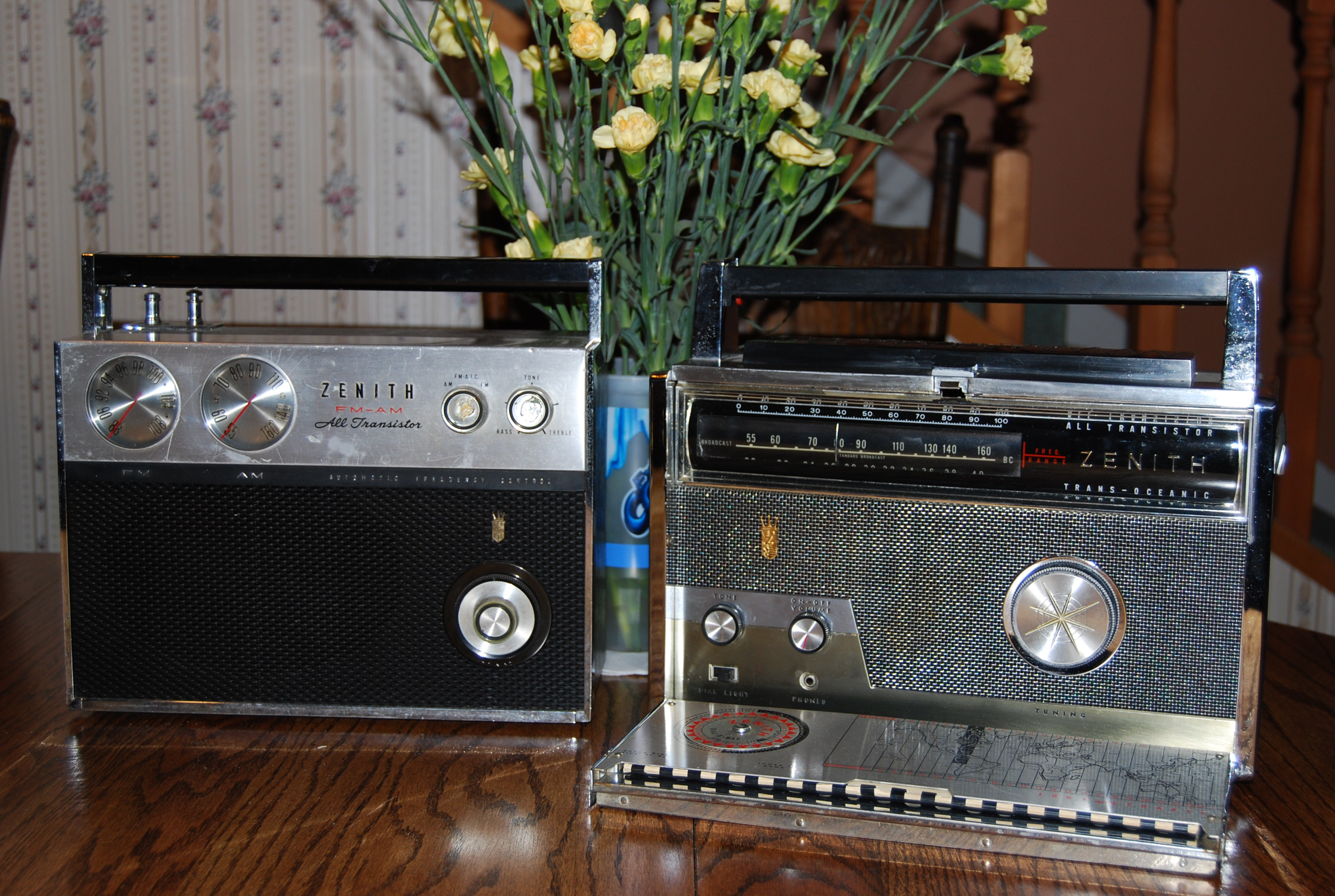 First portable transistor FM/AM Radio and First portable transistor multiband radio. "LEFT: The Royal 2000 Tran-Symphony (1960), First American FM/AM Portable RIGHT: The Royal 1000 Trans-Oceanic (1957)- First Transistor Portable Multiband Radio"— English Wikipedia article "Eugene F. McDonald"